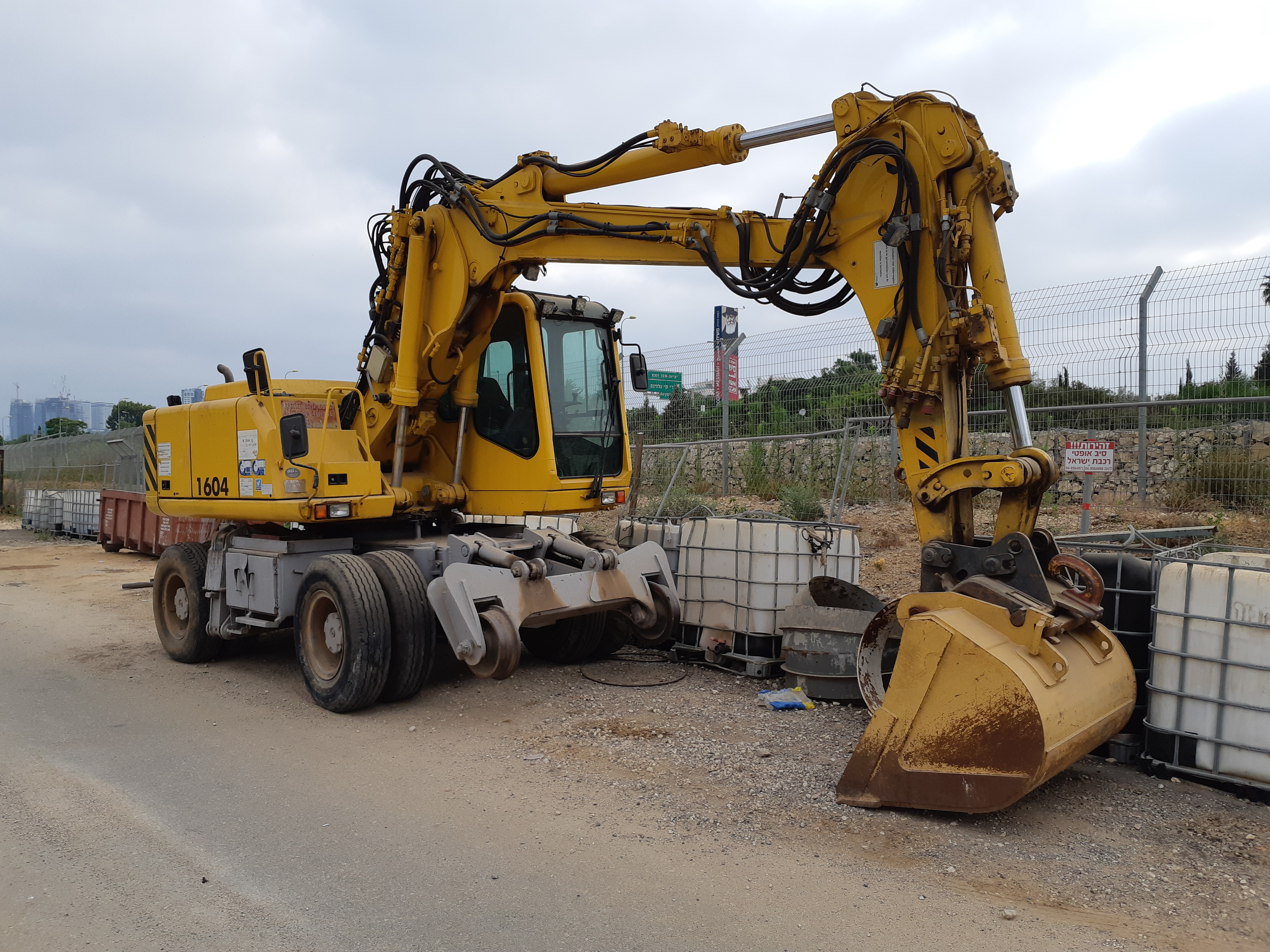 Atlas 1604 MK dual road rail excavator south of Hagana Railway station. Tel Aviv.